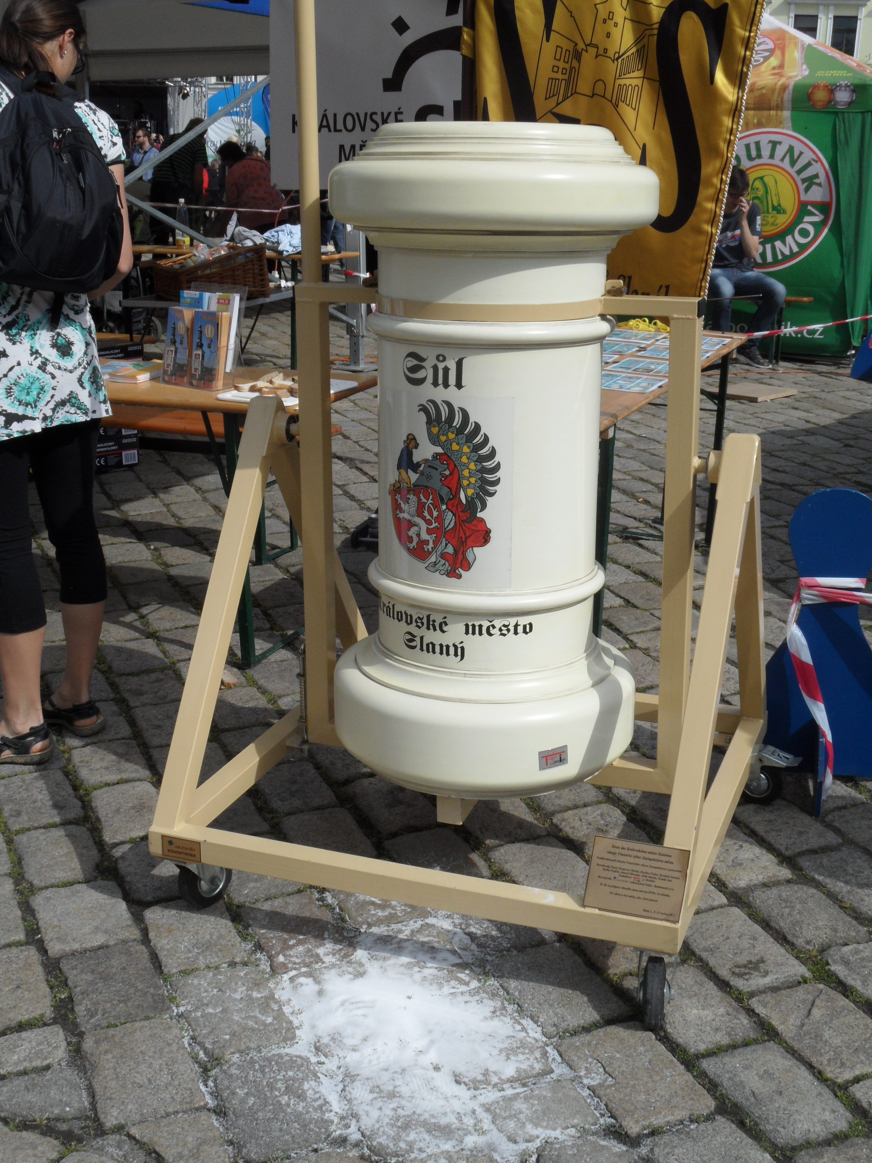 Festival Pelhřimov – the City of Records 2017, Afternoon Programme: City Slaný: the largest salt cellar (200 kg). Pelhřimov District, the Czech Republic.